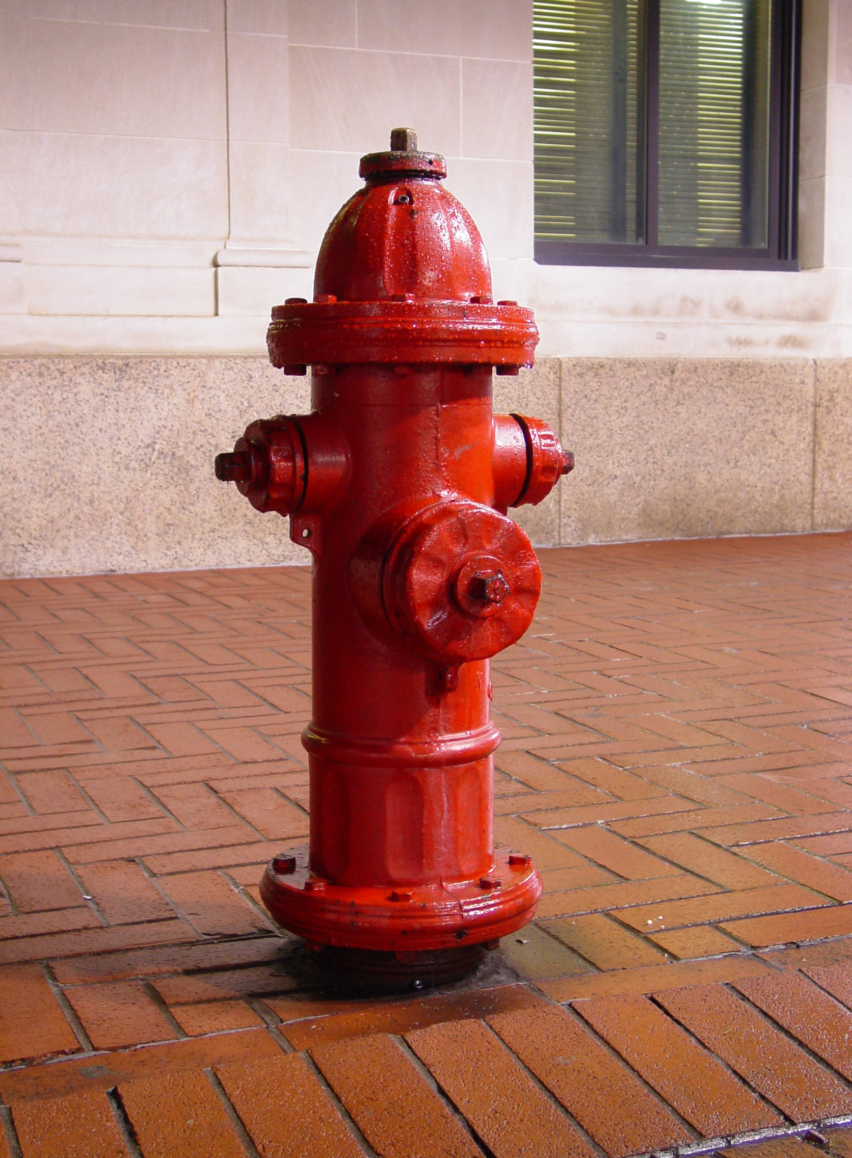 Fire hydrant on the Downtown Mall in Charlottesville, Virginia. It can readily be identified as a dry type pillar hydrant by the valve stem on the top cap. Dry type hydrants are used in climates that experience sub-freezing temperatures in winter. The main valve is located underground, below the frost line.Photo by Ben Schumin, December 25, 2006.Edited by User:SchuminWeb using Adobe Photoshop.Original photo: File:Downtown Charlottesville fire hydrant.jpg